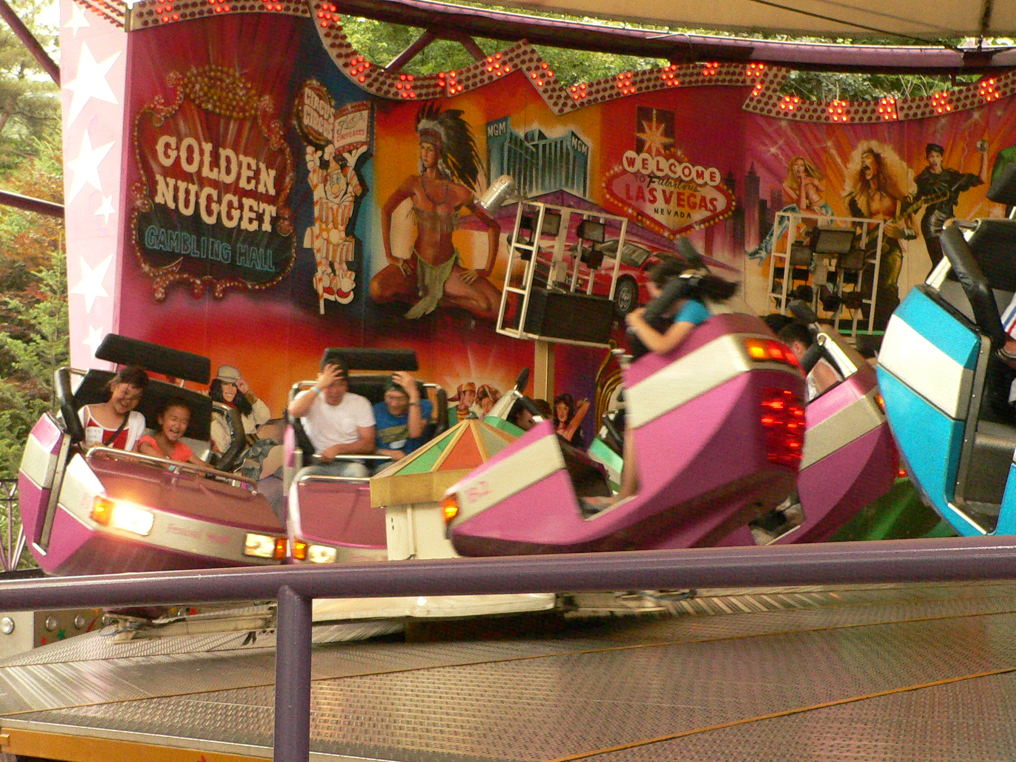 Everland, the biggest theme park of South Korea located in Yongin, Gyeonggi Province.